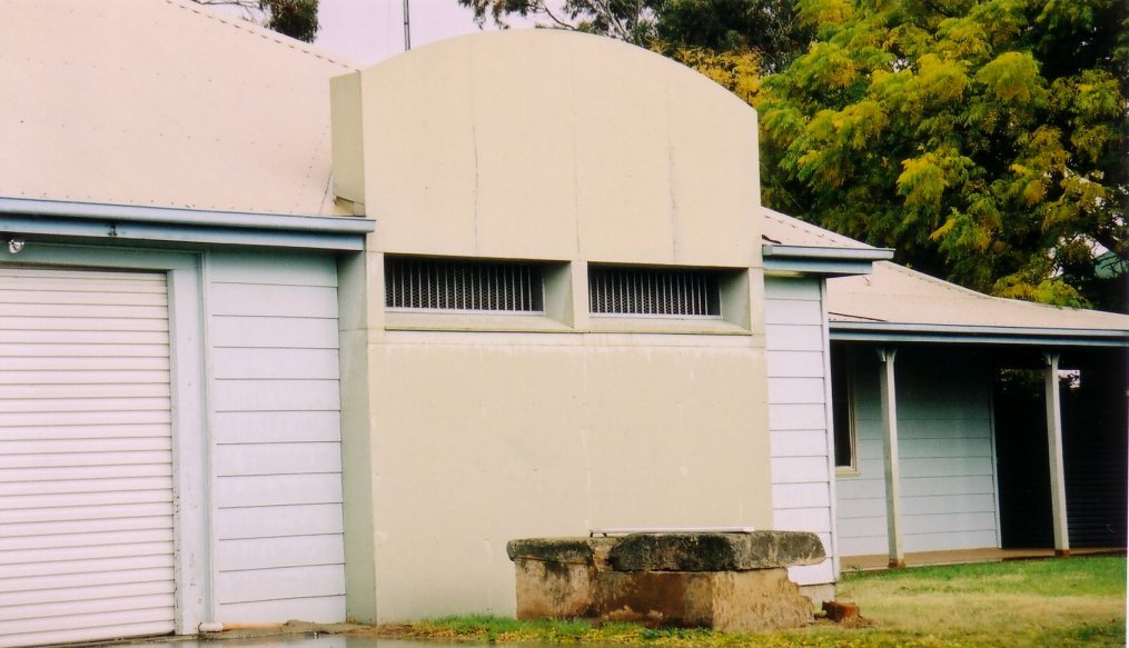 Image of the Jerilderie, NSW, Australia Police Station gaol from behind, made in the image of Ned Kelly.